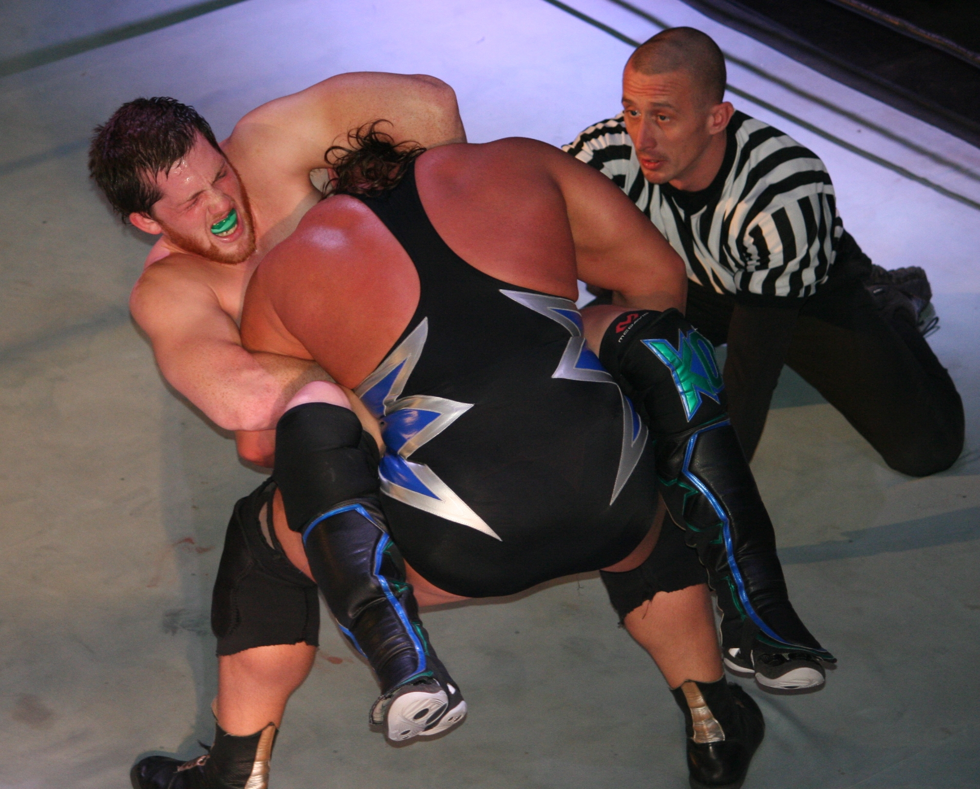 Guillotine choke on Elgin